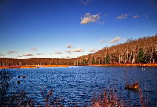 Painter Swamp, Pike County, within Delaware State Forest. (Another view here .)